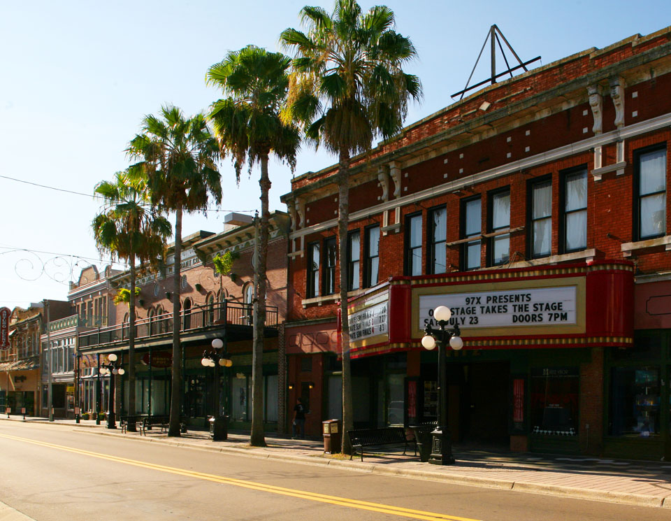 Circa 2010